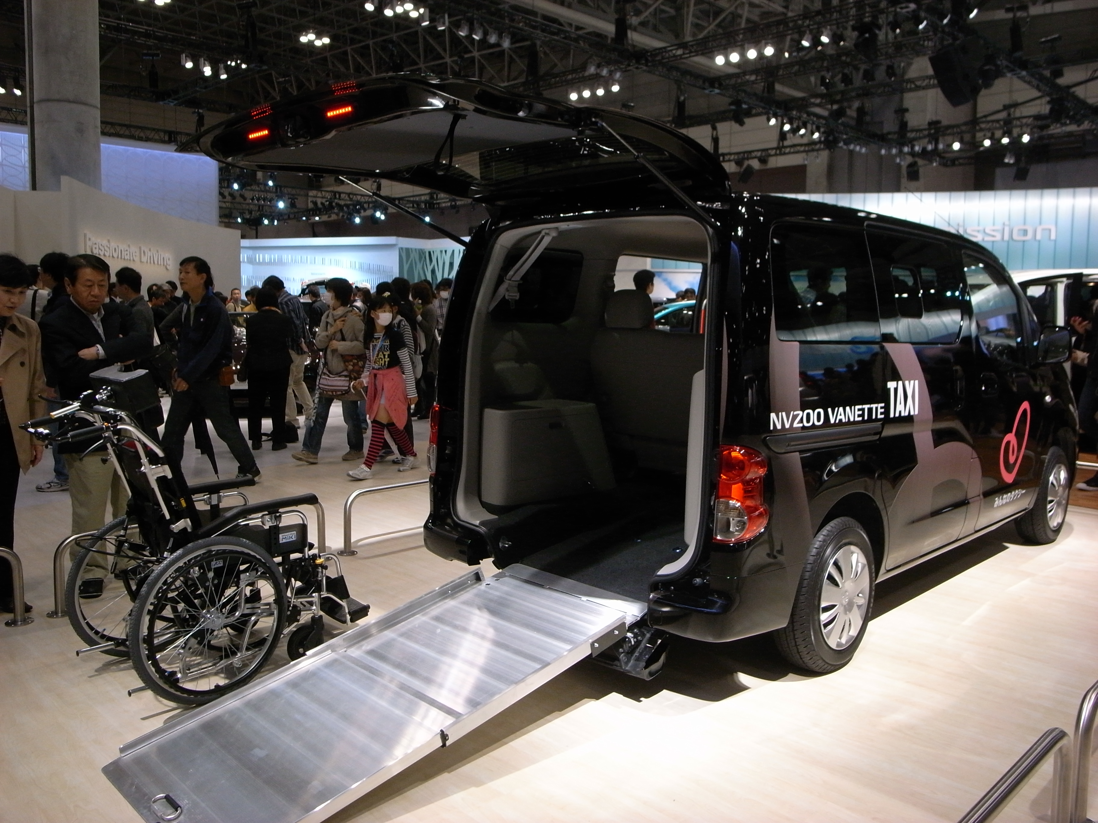 A taxi accessible to passengers using wheelchairs, Tokyo Motor Show, 2009